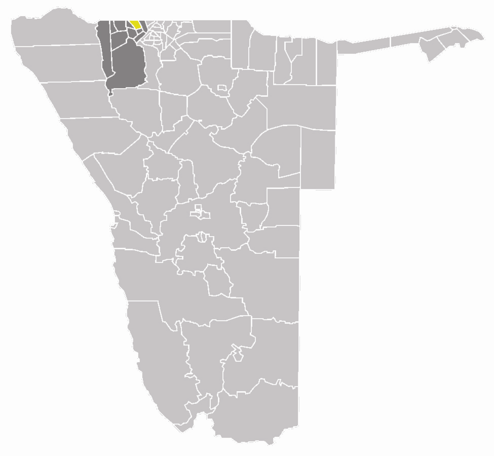 map of the Okalongo constituency within the Omusati region, Namibia